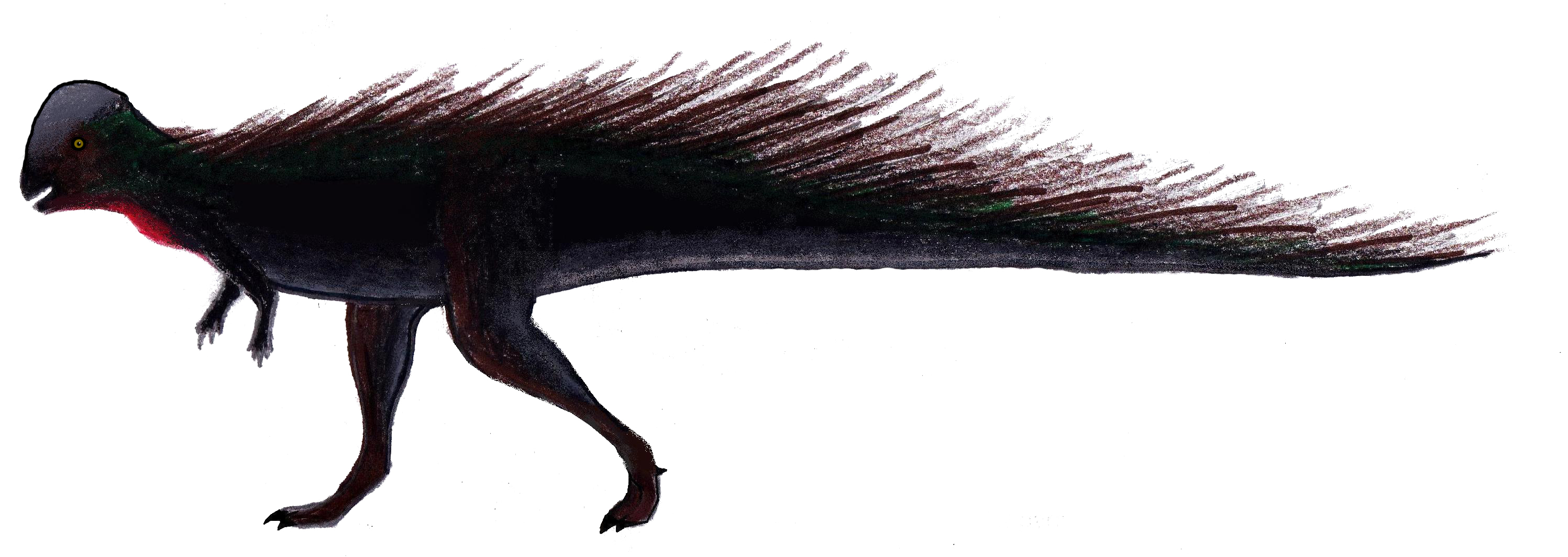 Life restoration of Colepiocephale